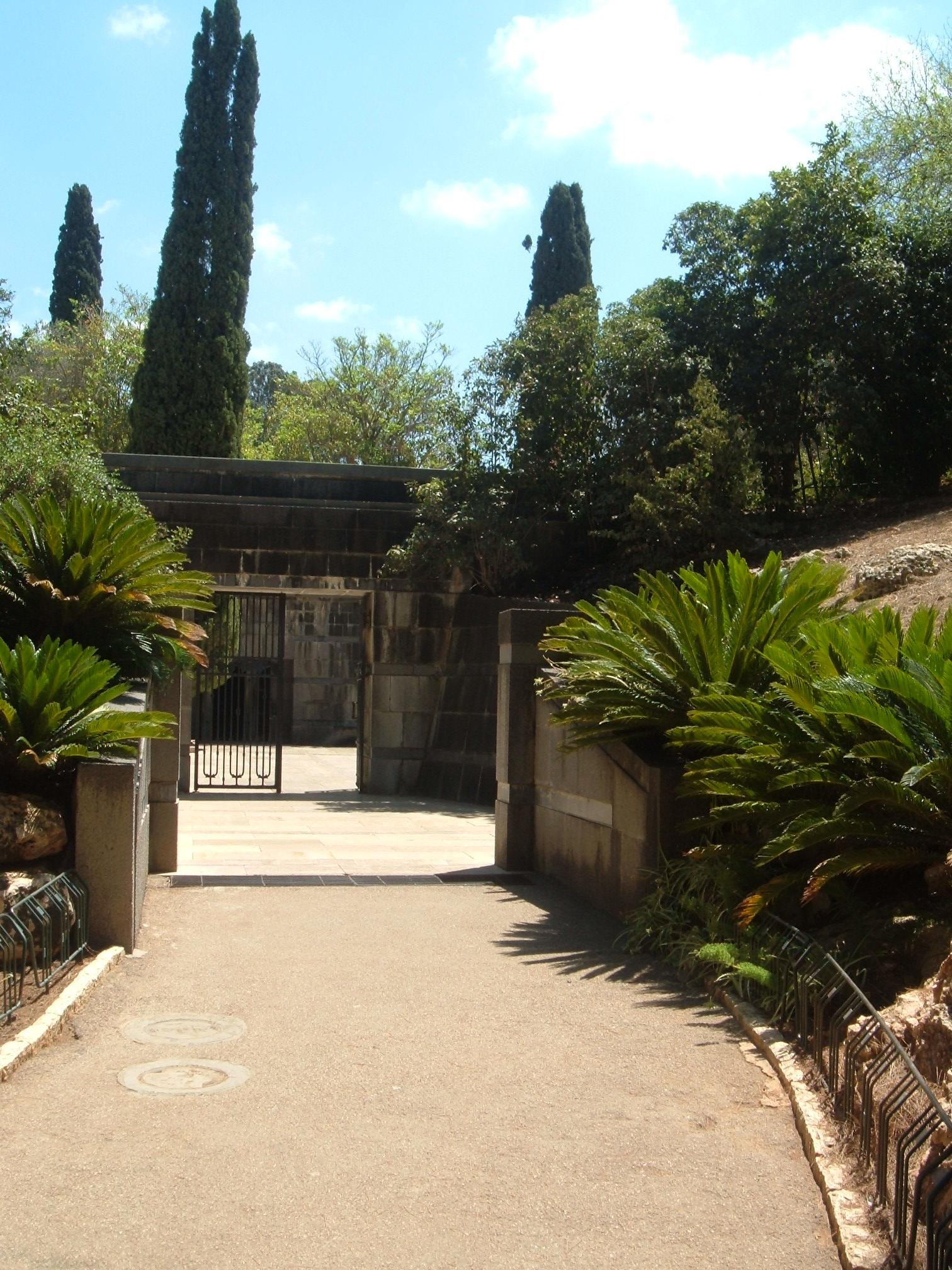 The Entrance to the Rotschild family tomb, Ramat Hanadiv, Near Zichron-Yaakov, Israel